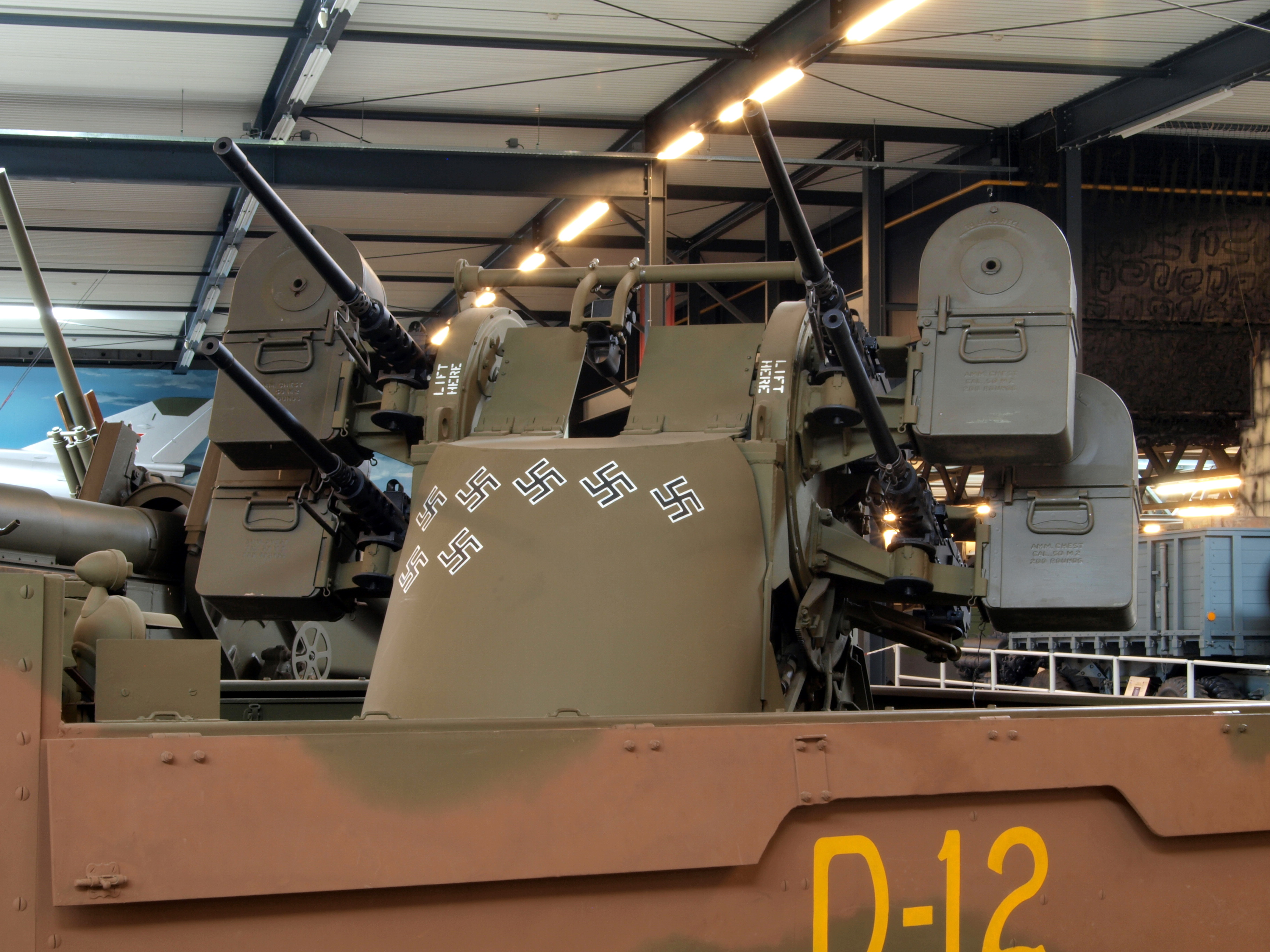 Photographed at the Marshallmuseum - Liberty Park - Oorlogsmuseum Overloon, The Netherlands.